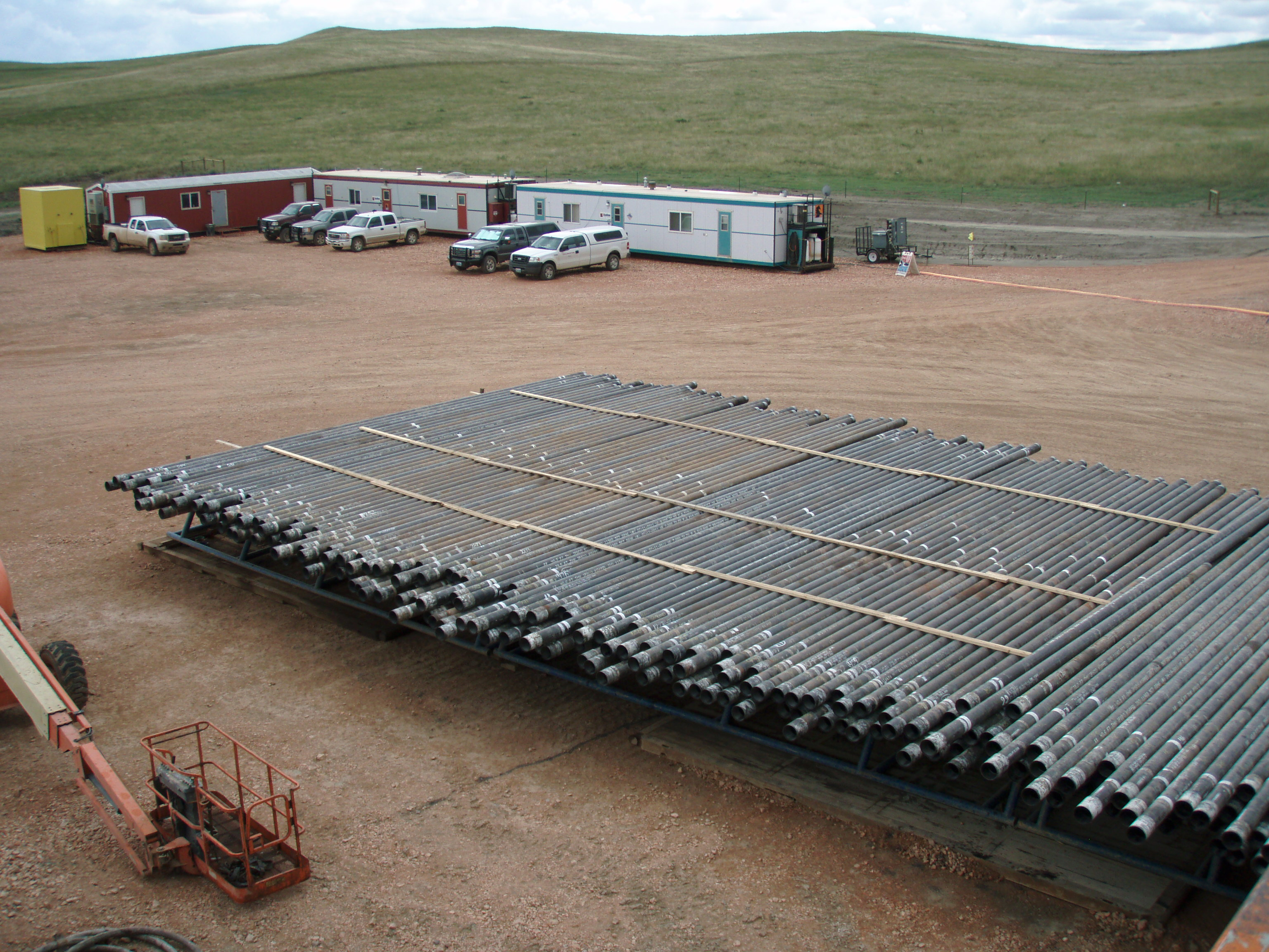 Oil Rig Casing